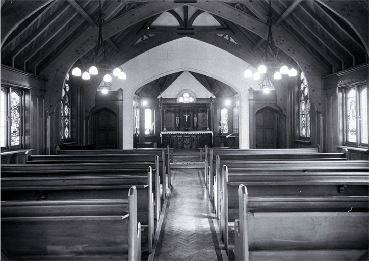 Nurses' Memorial Chapel, Christchurch Hospital, Riccarton Avenue, Christchurch, in ca 1930. The chapel was built in memory of three nurses from Christchurch Hospital who died when the troopship Marquette was torpedoed in 1915 during World War One (1914-1918); also to two nurses who died in the influenza epidemic of 1918. It is the only war memorial in New Zealand dedicated solely to the memory of women. It was designed by J.G. Collins (1886-1973) who practised with Collins & Harman from 1903 to 1955. He supervised the construction free of charge. The chapel is typical of Arts and Crafts Movement churches. Here the splendid timber of the interior and the stained glass windows are shown. The first service was held on Christmas Day 1927. This photography was taken shortly after the building was completed.